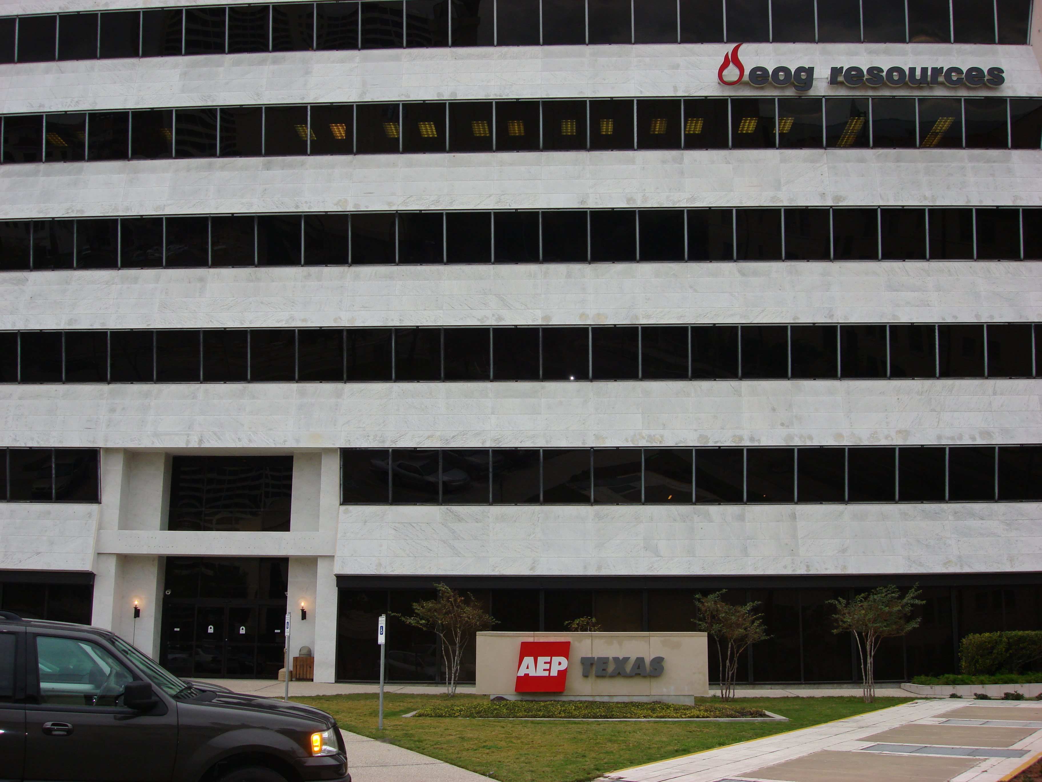 EOG Resources - Corpus Christi Division. Address: 539 N. Carancahua. Photo taken by me.